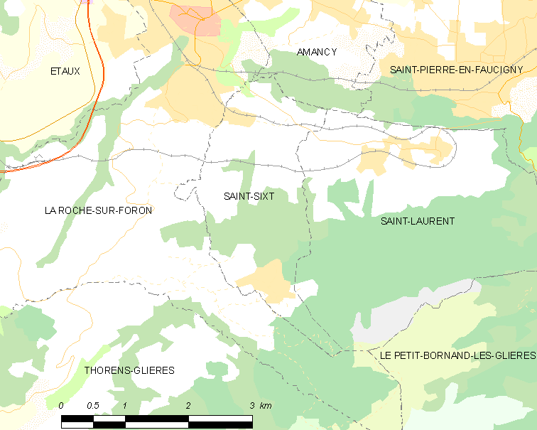 Map of French municipality Saint-Sixt